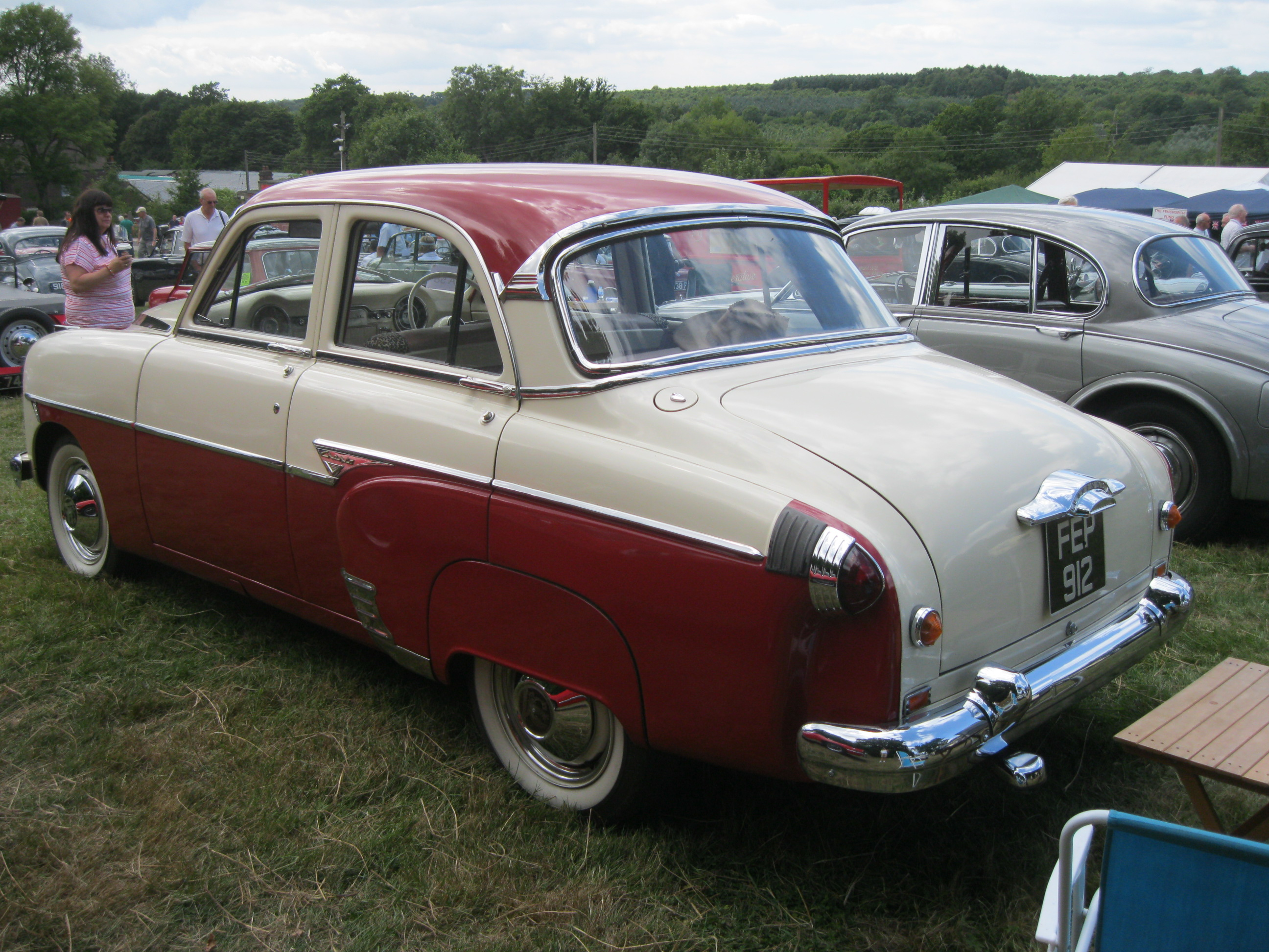 Spotted at the Bluebell Railway Historic Transport Weekend on 10.08.13